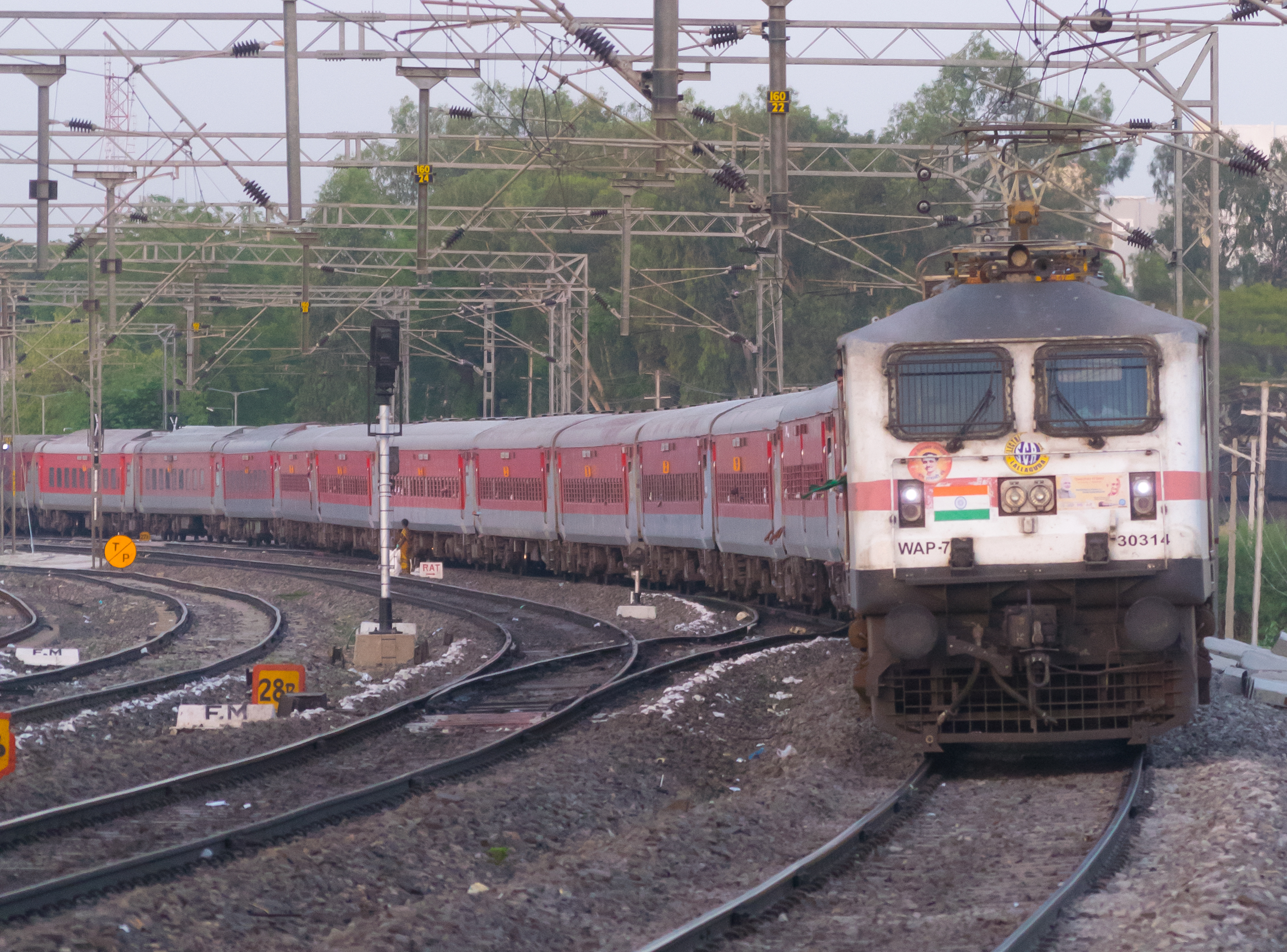 Rayalaseema Express with a WAP7 and LHB coaches near Lingampally Railway Station